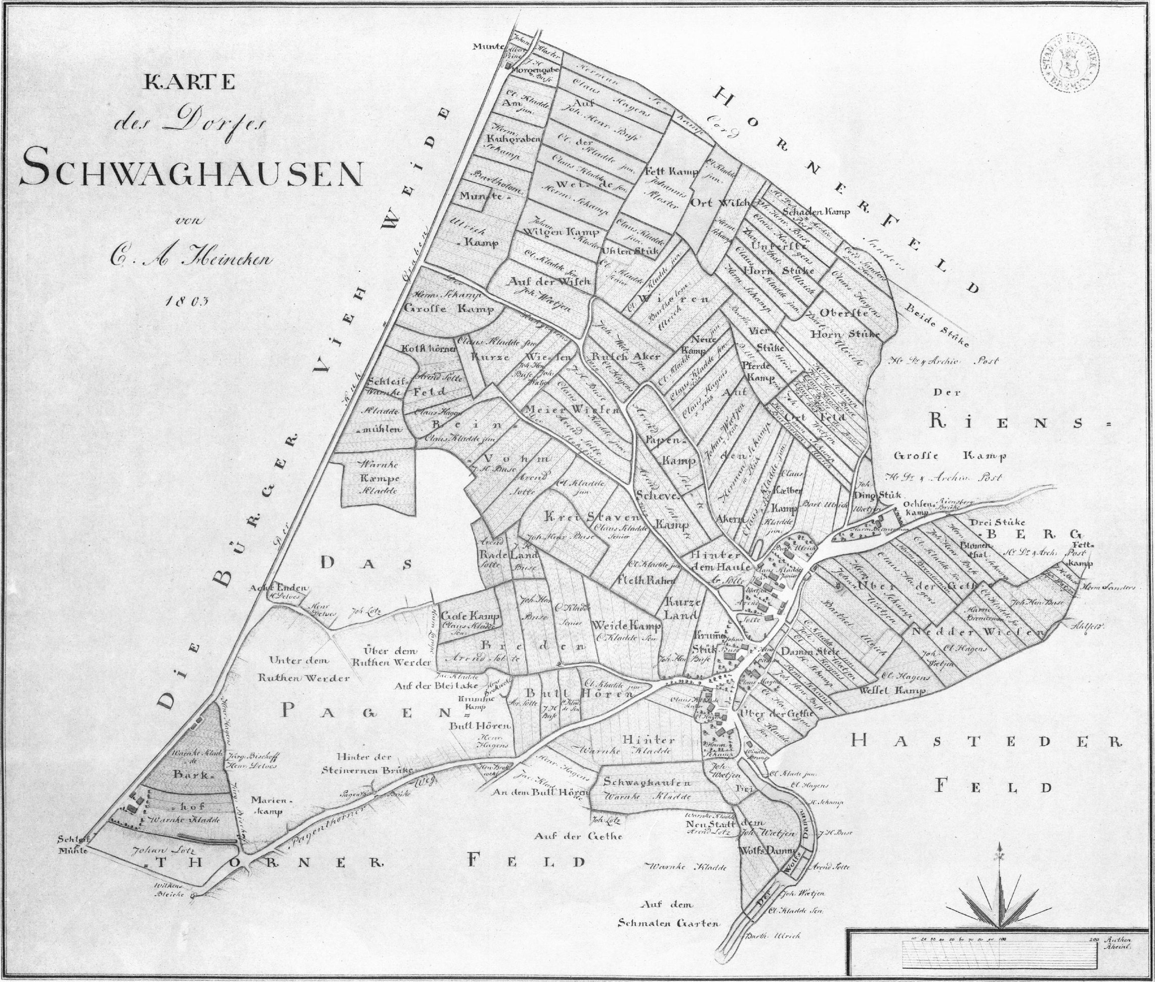 Original title: Map of Schwaghausen village by C. A. Heineken 1803